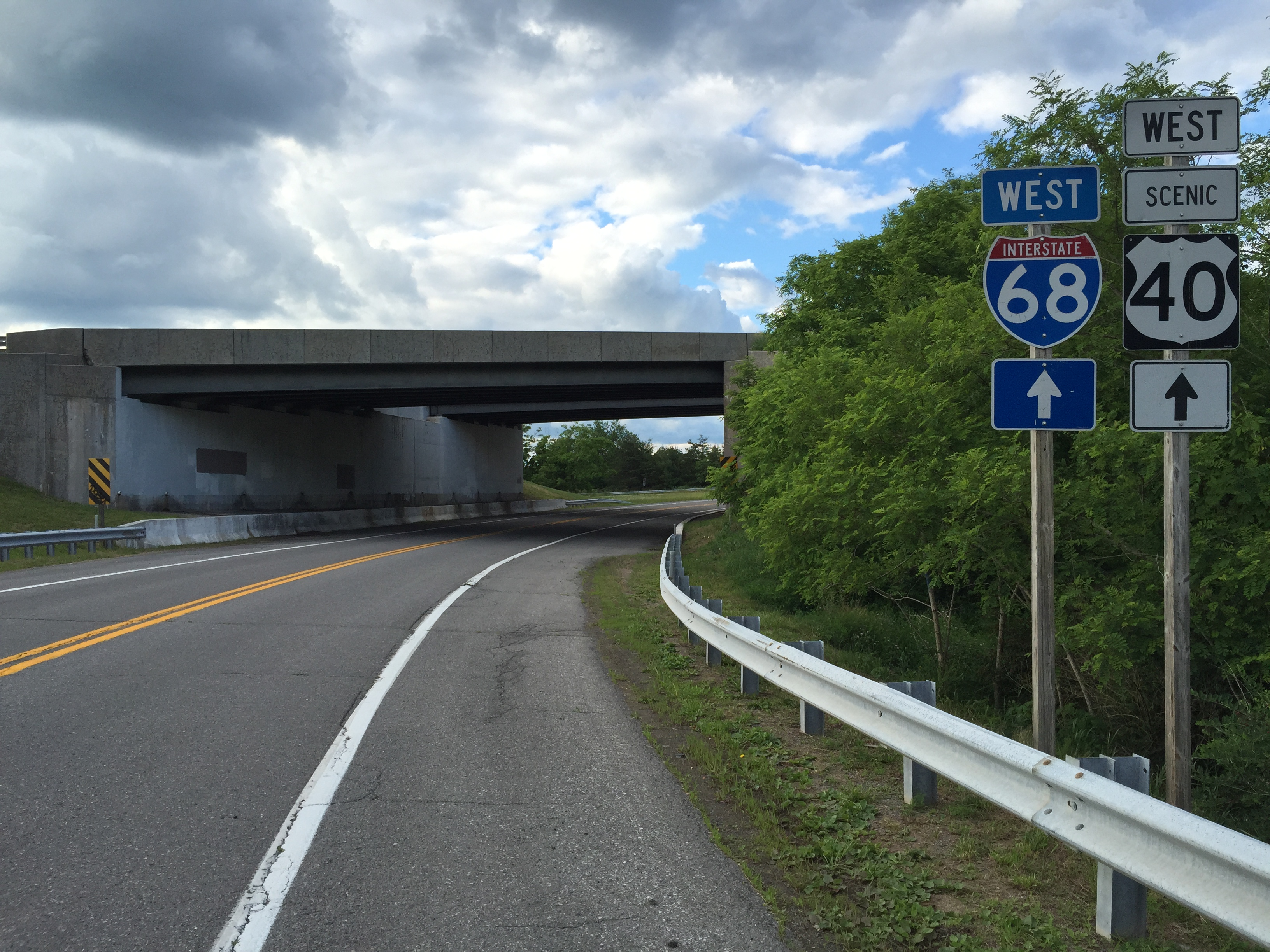 View north along Maryland State Route 903 and west along U.S. Route 40 Scenic (National Pike) at Interstate 68 and U.S. Route 40 (National Freeway) in Forest Park, Washington County, Maryland